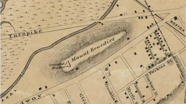 Map by Martin Draper of Somerville, Mass., USA